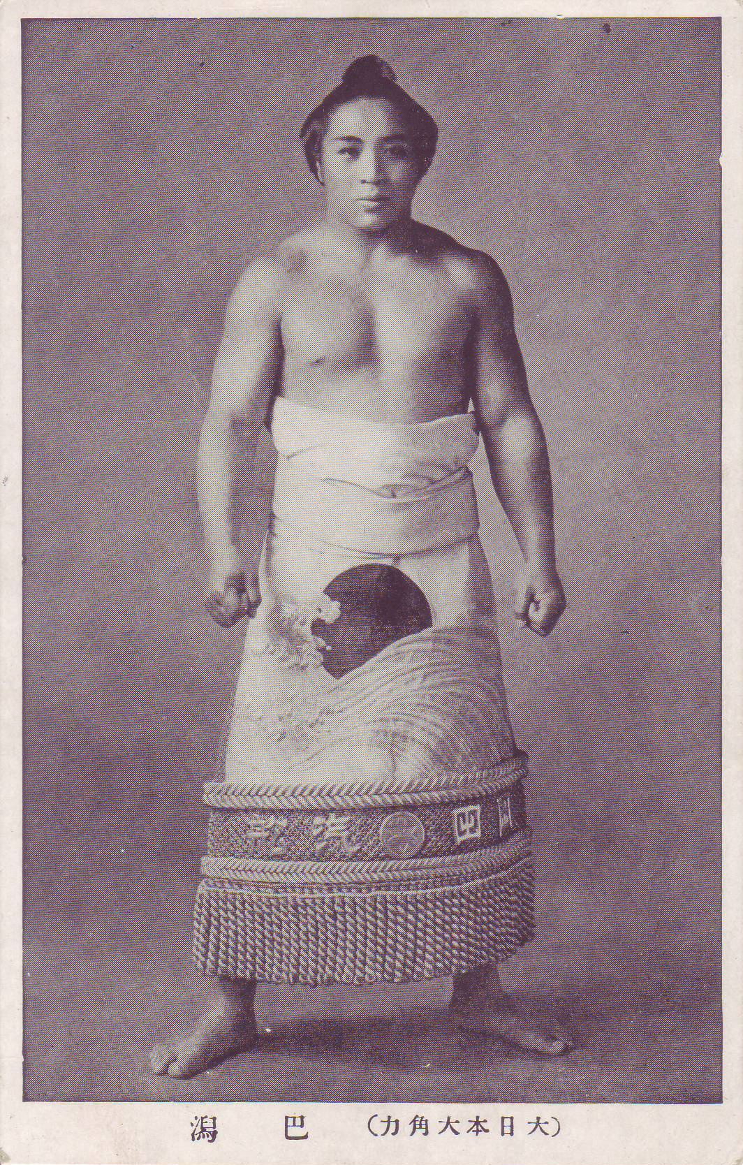 Postcard of Tomoegata Seiichi (sumo wrestler. Komusubi).